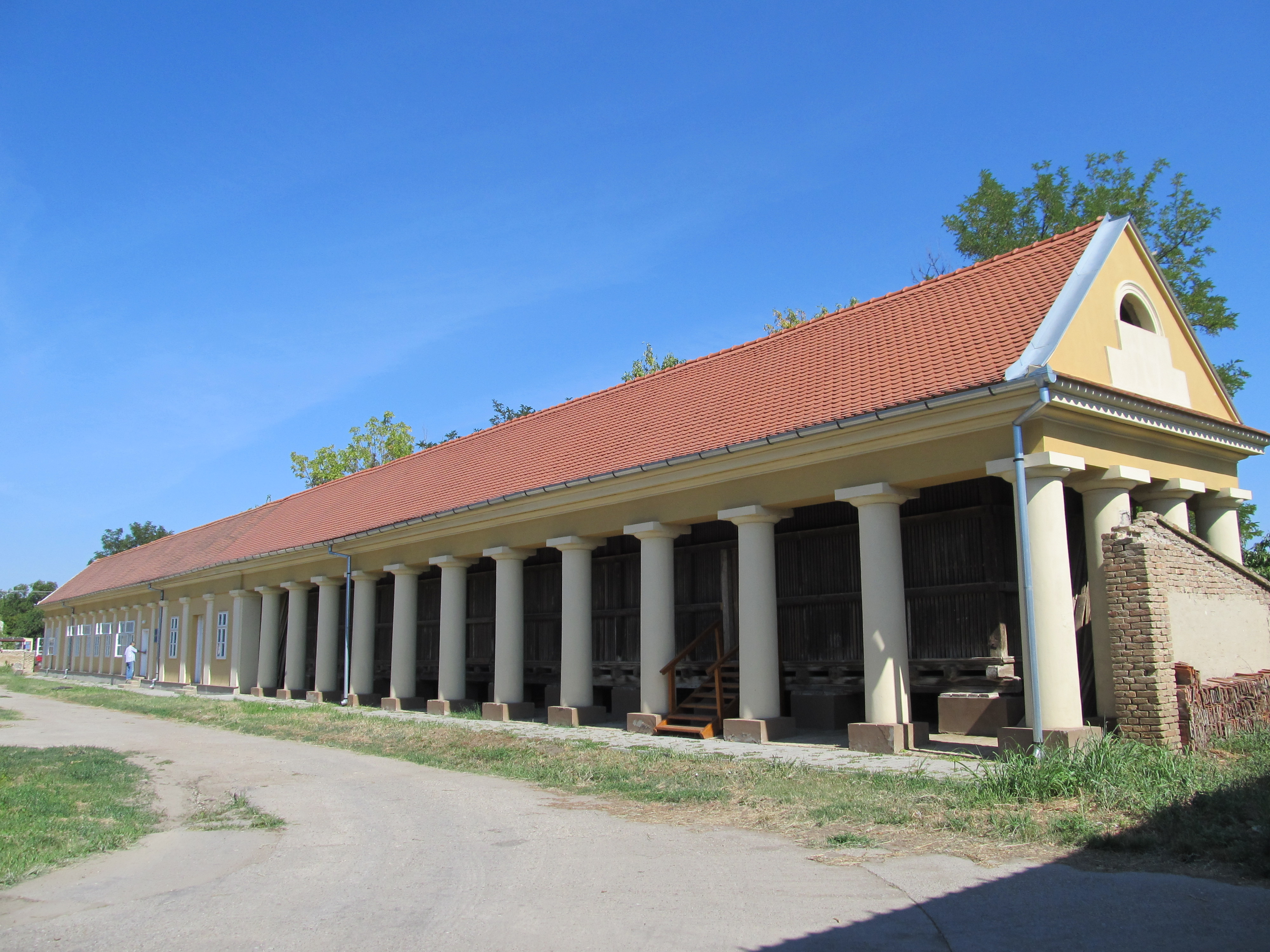 Maize store in Novo Miloševo - rear part Српски (ћирилица): Kotarka u Novom Miloševu - zadnji deo